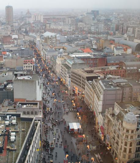 View of the Meir, main street in Antwerp, Belgium, looking East from the top of the Boerentoren building. The tall building at the far end is the Antwerp Tower (original name in English). To its right is the Central Station with its distinctive cupola. Nikon D60 f=18mm f/3.5 at 1/20s ISO 200. Colour corrected and reduced in Nikon ViewNX 1.0.3, reframed in Microsoft Paint 5.1.